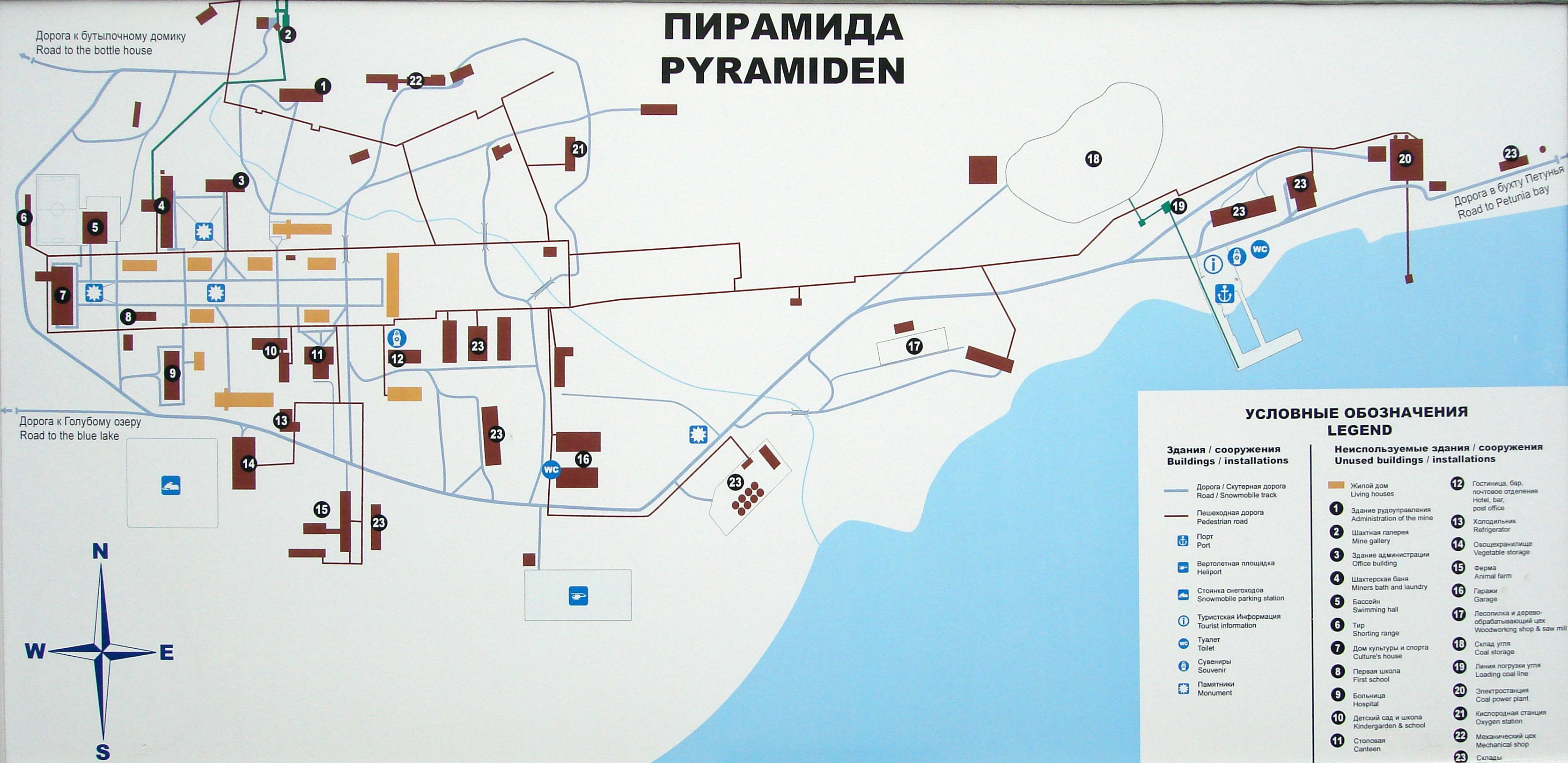 Map of Pyramiden, soviet ghost town in Svalbard.